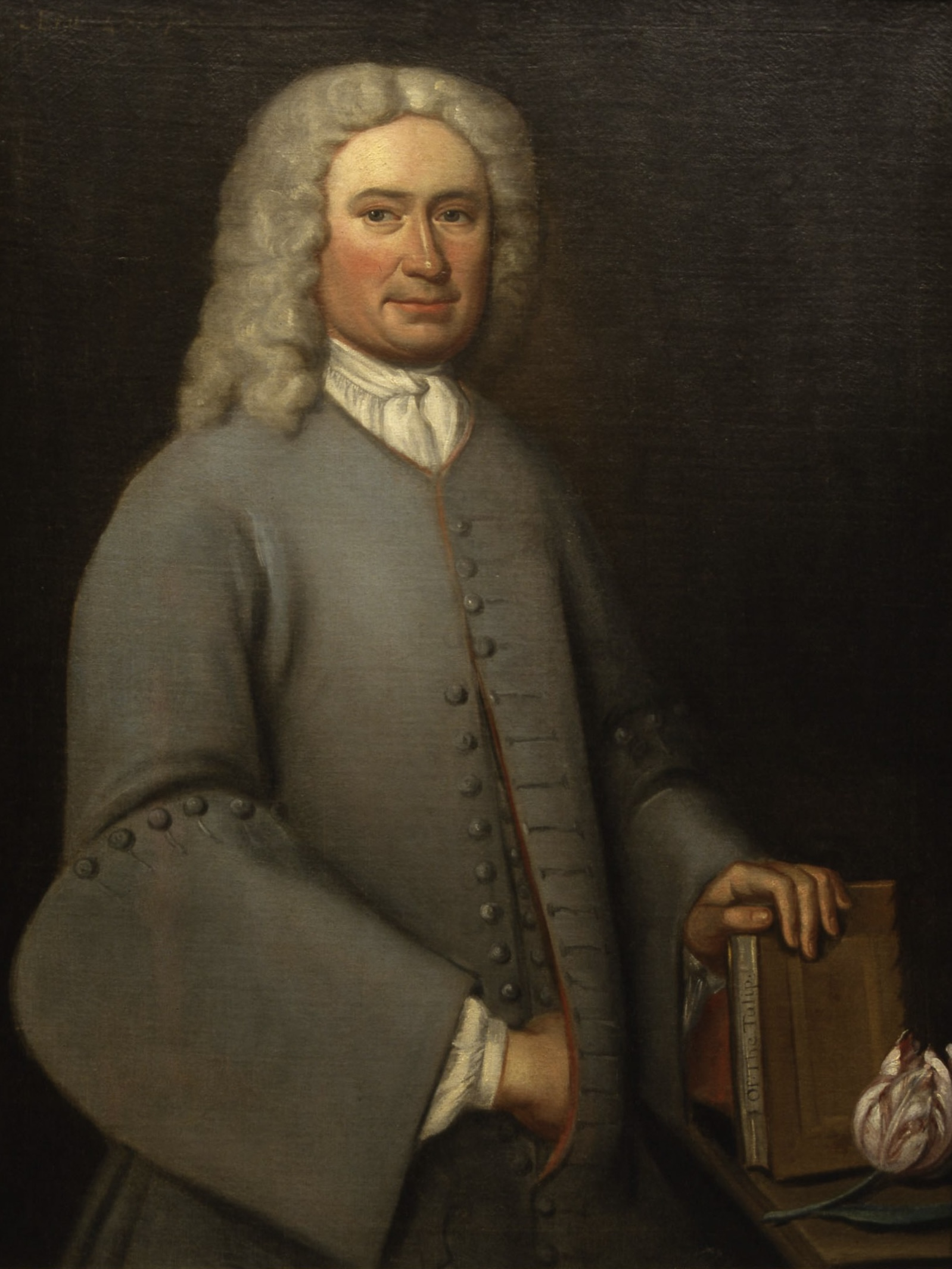 A portrait of John Custis IV or John Custis of Williamsburg (1678–c.1749), American politician and a member of the Governor's Council in the British Colony of Virginia, by Charles Bridges (d.1747), 1725. Washington-Custis-Lee Collection, Washington and Lee University, Lexington, Virginia